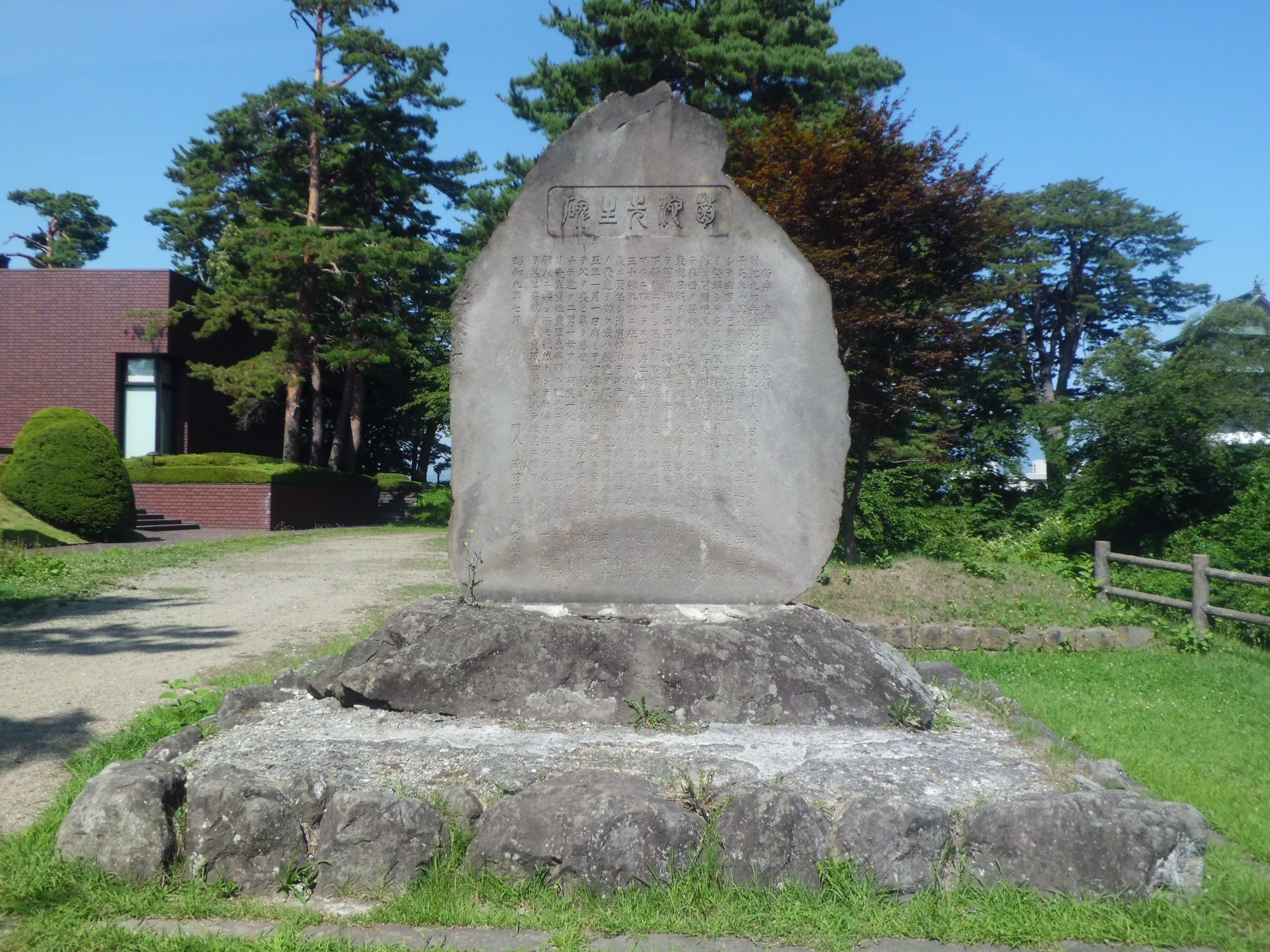 Monument of Kuro Kikuchi